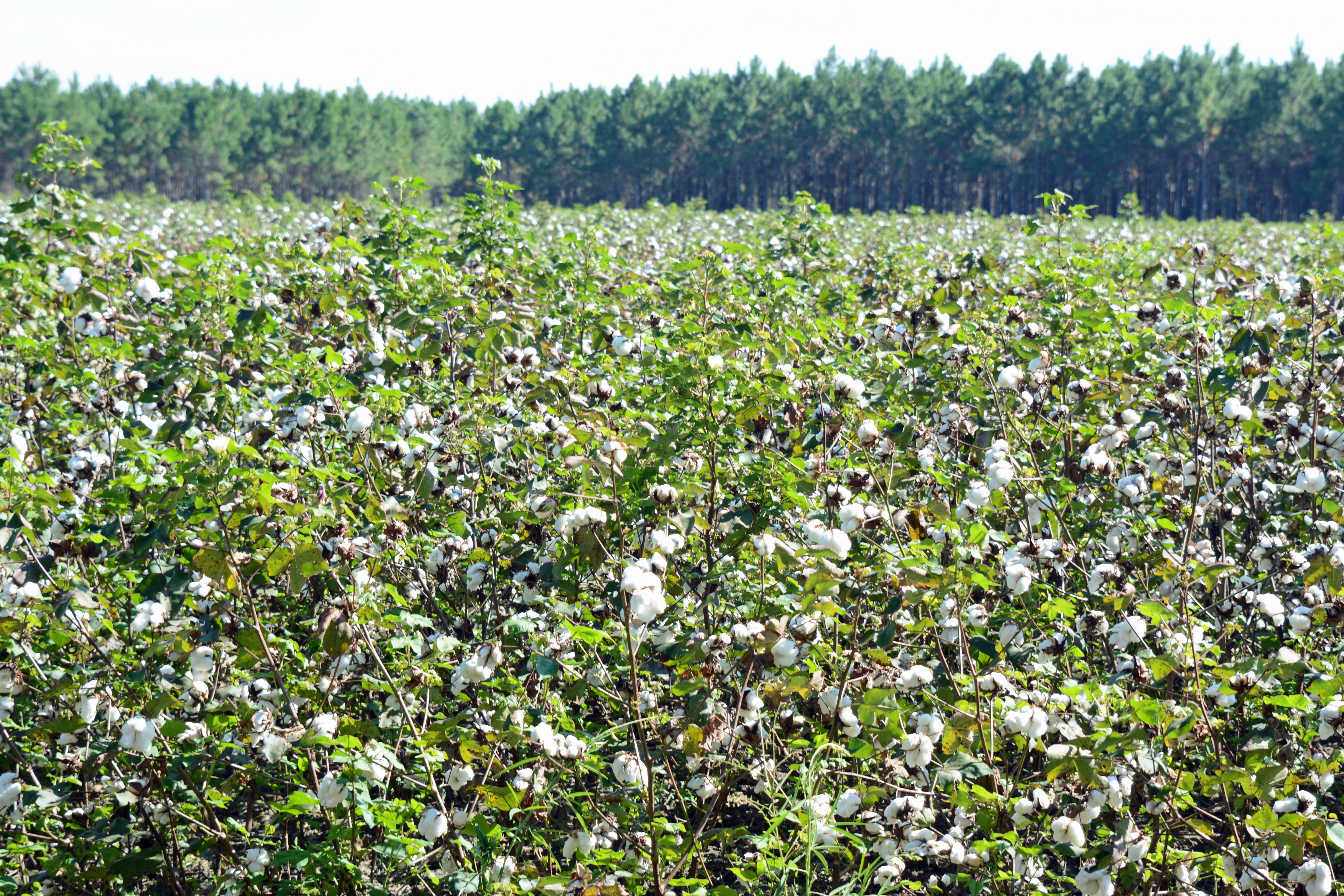 Cotton field, Ware County, Georgia, US